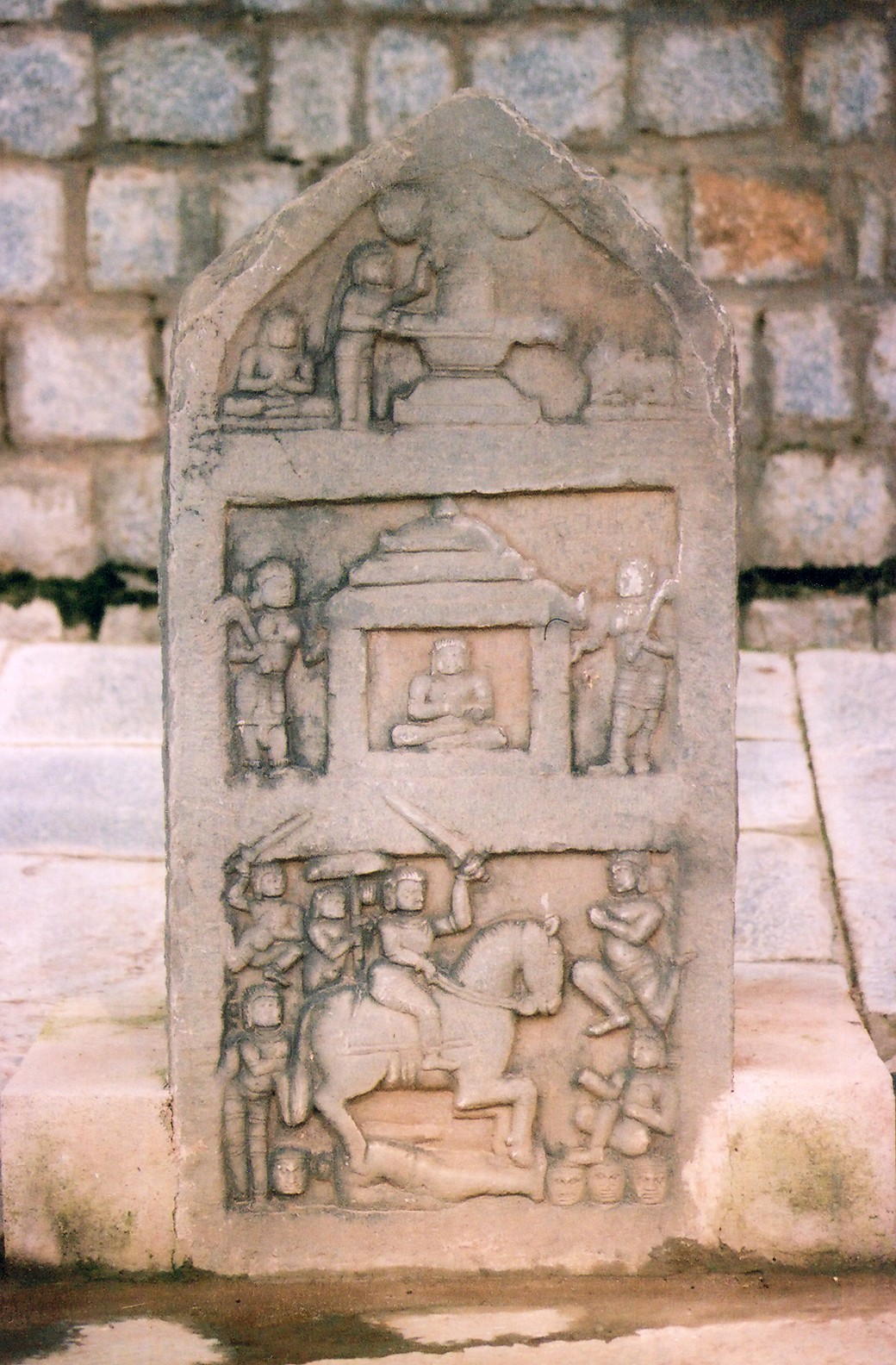 This photograph was taken by self (Dinesh Kannambadi) at the Siddhesvara temple (Also spelt Siddheshvara or Siddheshwara) at Haveri, Karnataka state, India